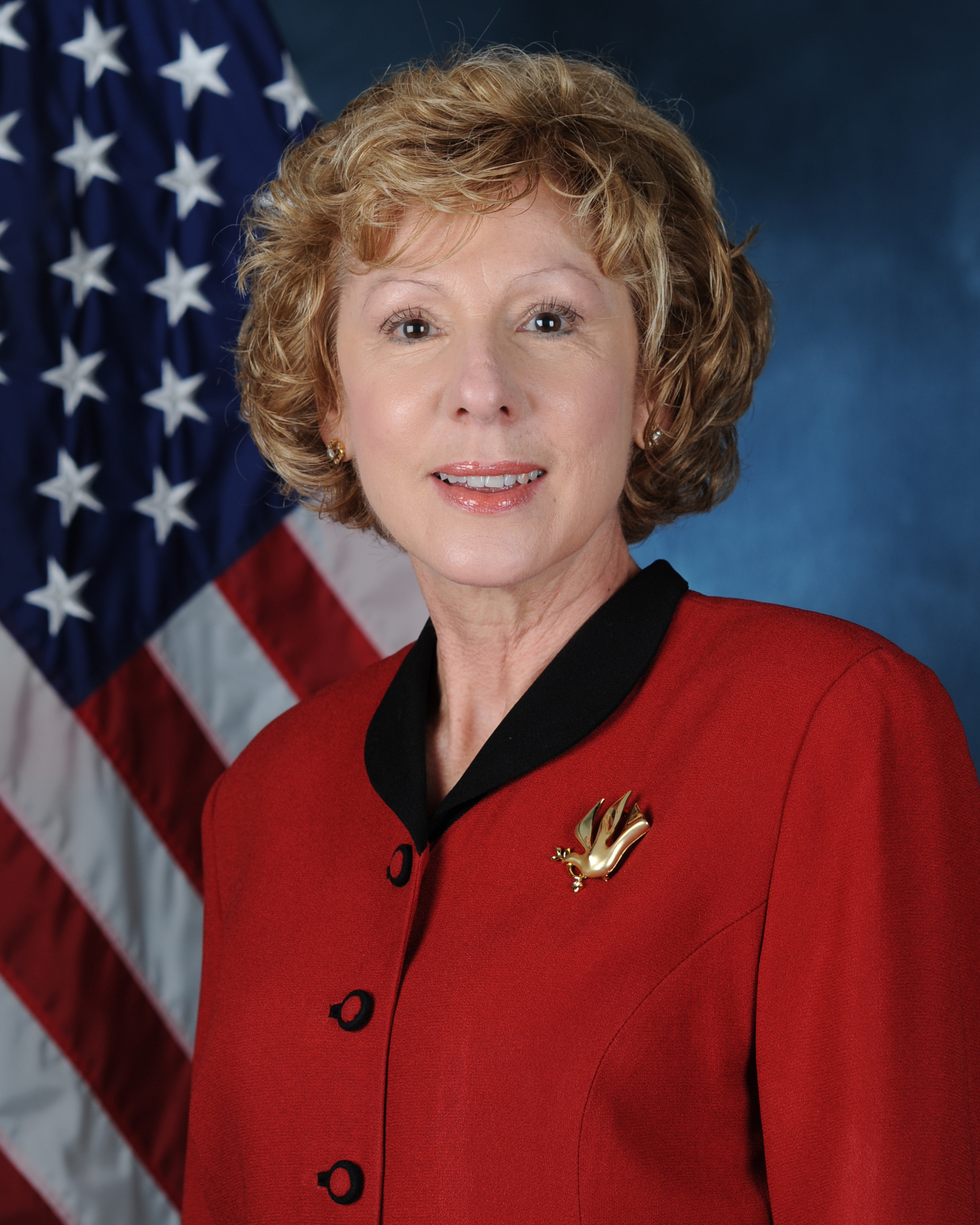 Dr. Janet Sue Fender, April 9. 2013.